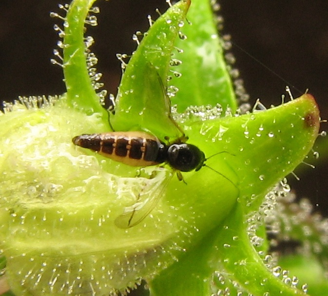 A biting midge (Ceratopogoninae, possibly Bezzia, Palpomyiini) caught by sticky hairs of penstemon flower. Peace Valley Nature Center, Bucks County, Pennsylvania, USA.